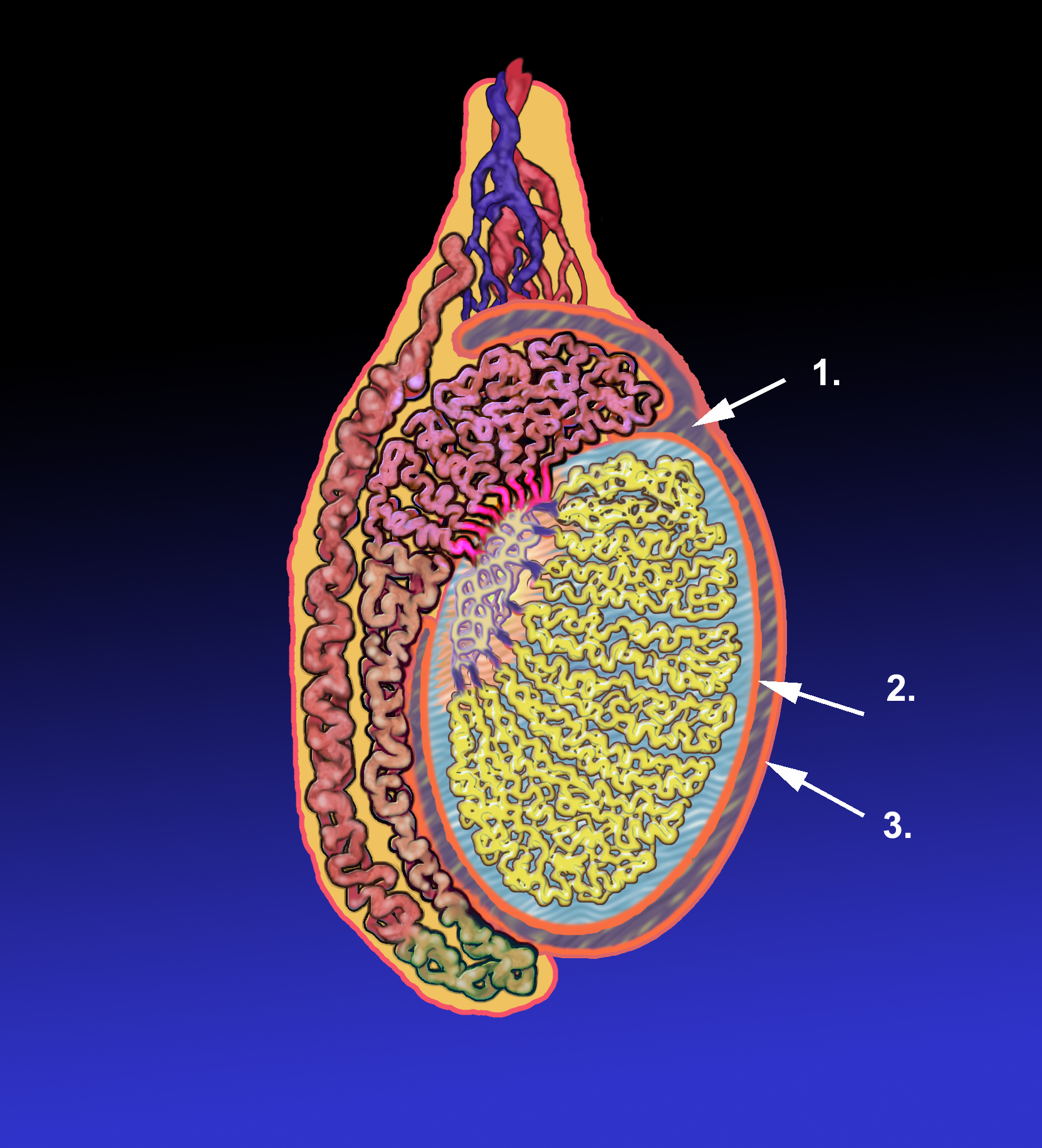 Diagram of an adult human testicle with the tunica vaginalis pointed out.